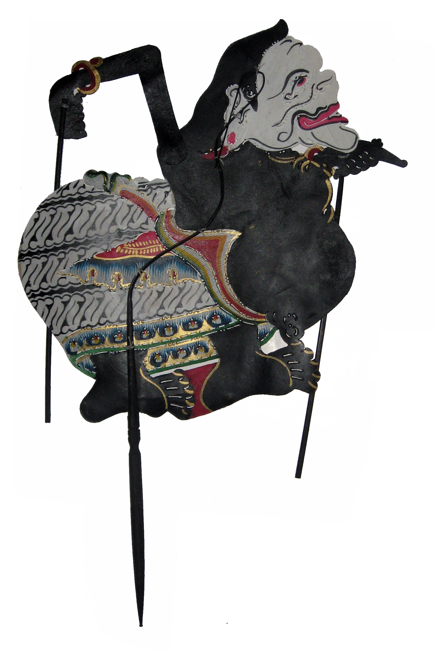 A shadow puppet in the form of Semar. Semar, said to be one of three divine brothers, is known for his powerful farts and insatiable hunger Size Height: (minus bottom handle) 15 inches (38 cm), with handle 23.8 inches (60 cm) Width: 14.1 inches (36 cm)